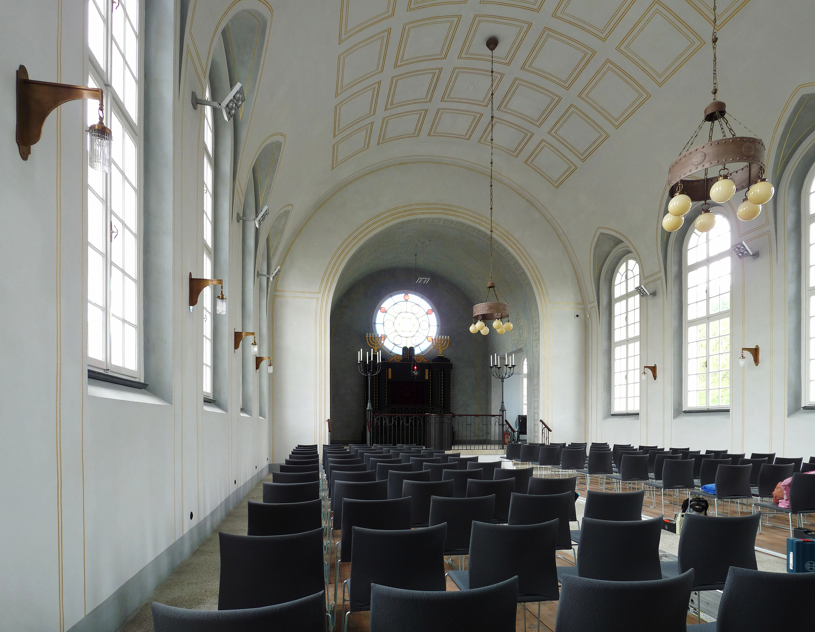 Interior of the former synagogue in the town of Český Krumlov, South Bohemian Region, Czech Republic.